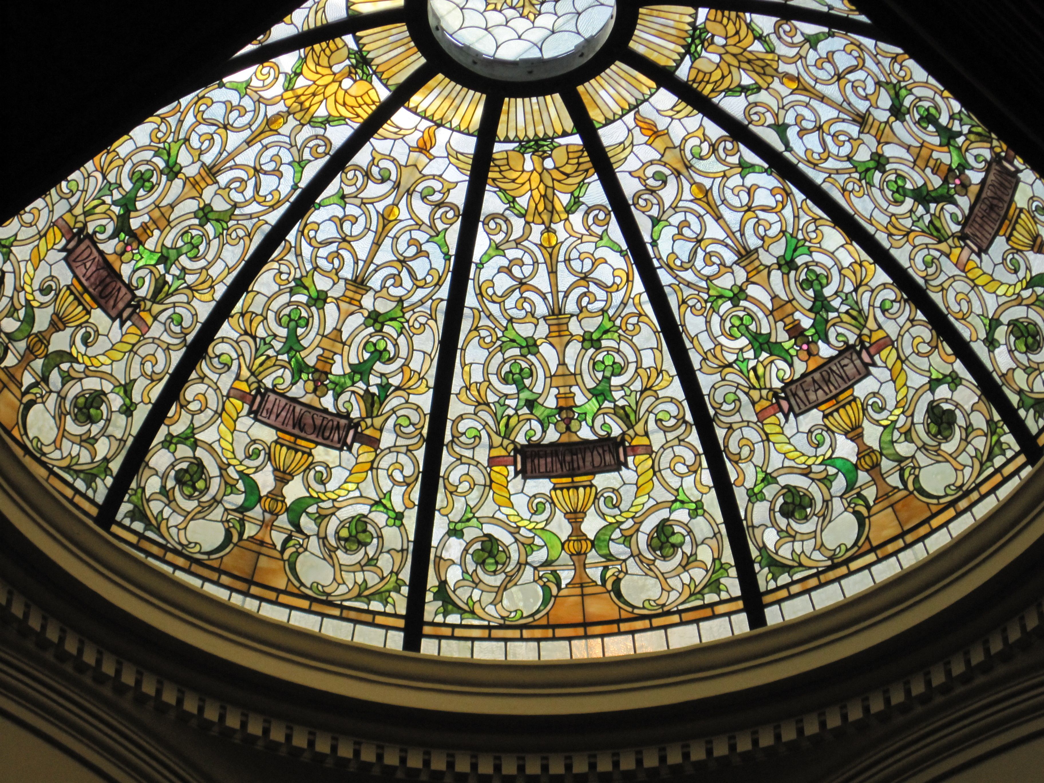 A stained glass dome above the floor of the New Jersey Senate in the New Jersey State House. It features names of famous New Jerseyans.